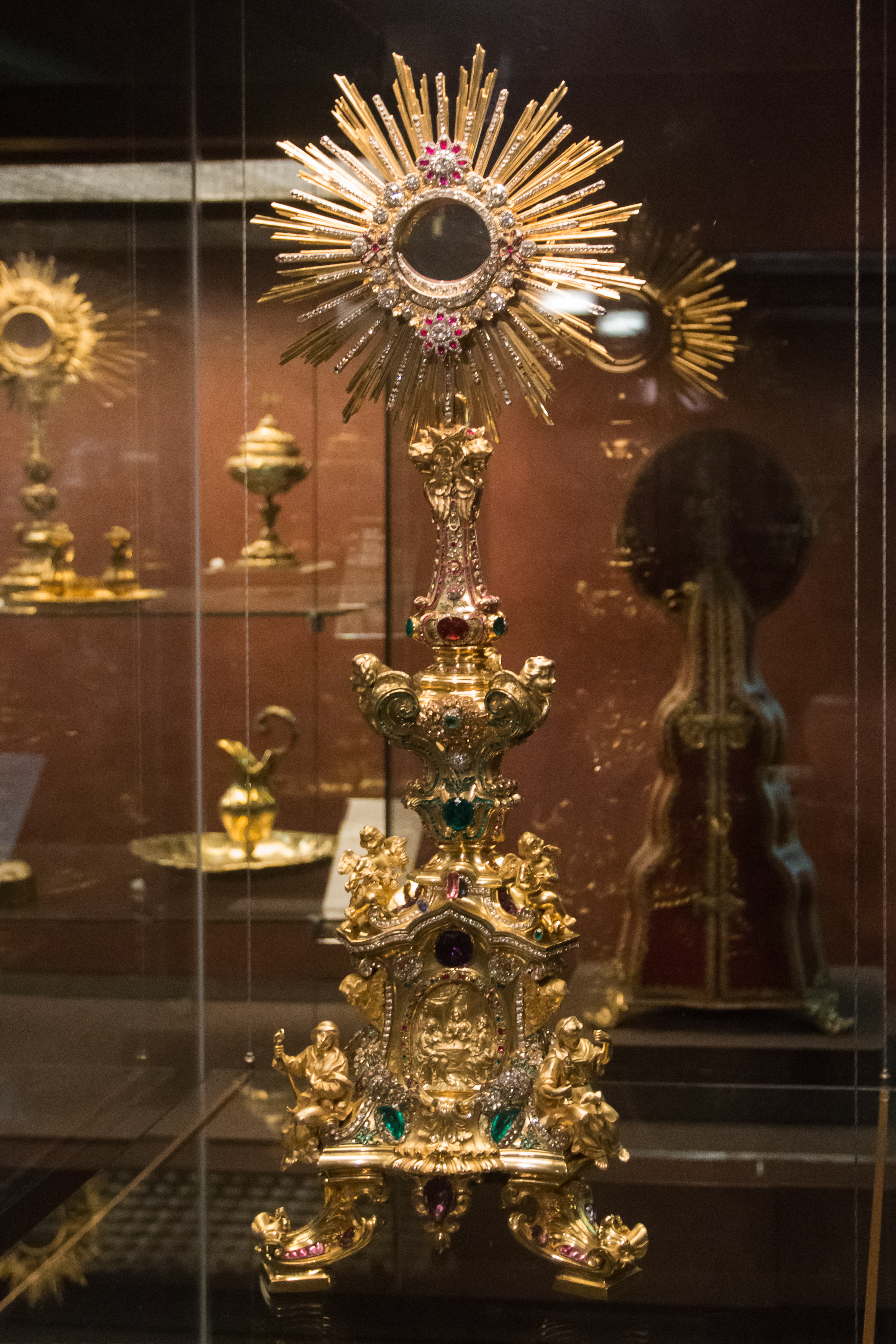 Monstrance whose base is decorated with a partial representation of the Last Supper and embellished with angels, a the good Shepherd (John 10-11), and the Samaritan woman (John 4-14).